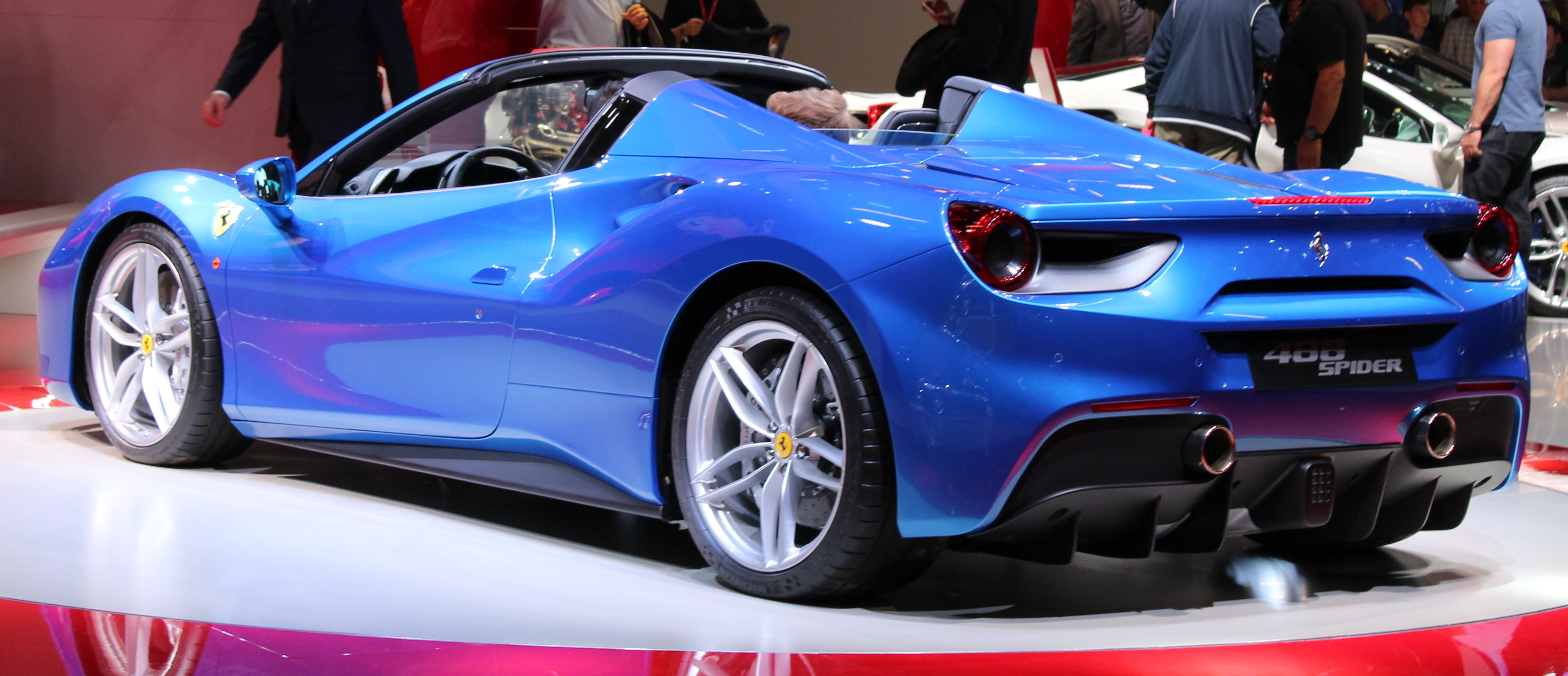 Passenger vehicles being displayed in 2015 International Motor Show Germany.